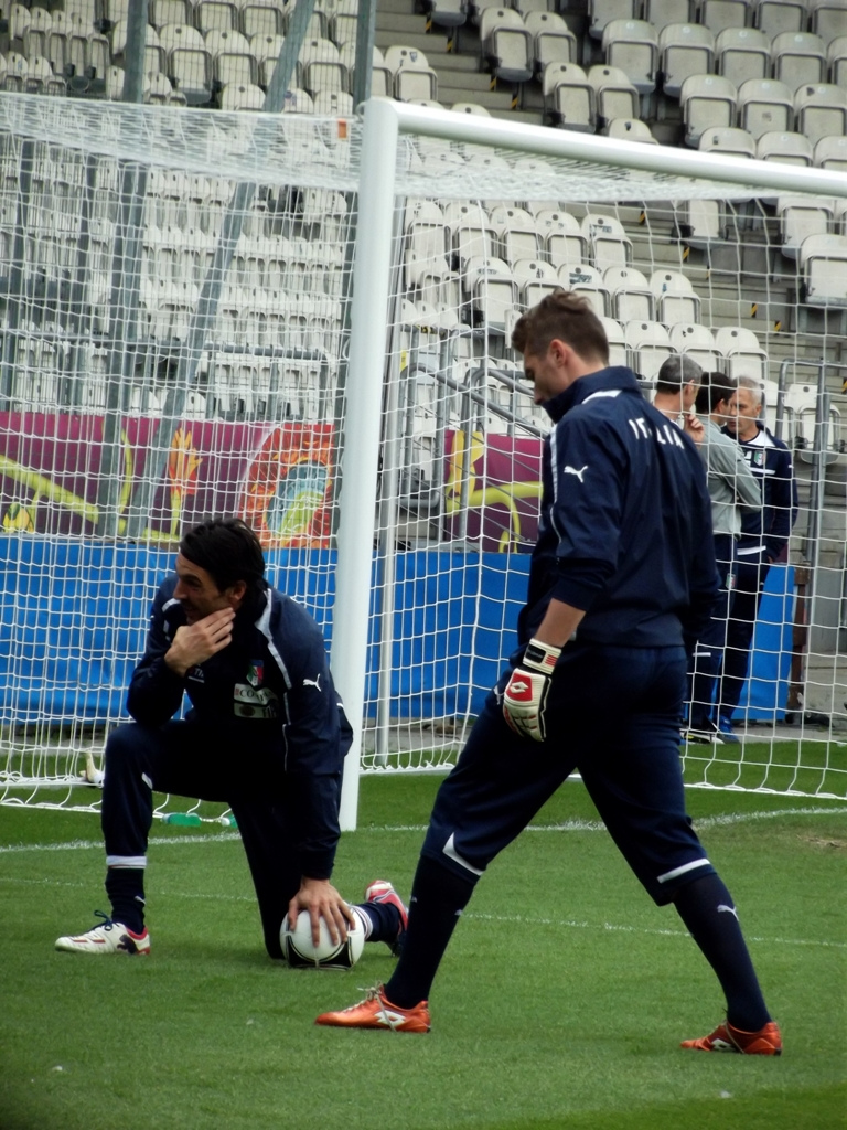 Gianluigi Buffon and Morgan De Sanctis during Italy national football team training on 26/06/2012